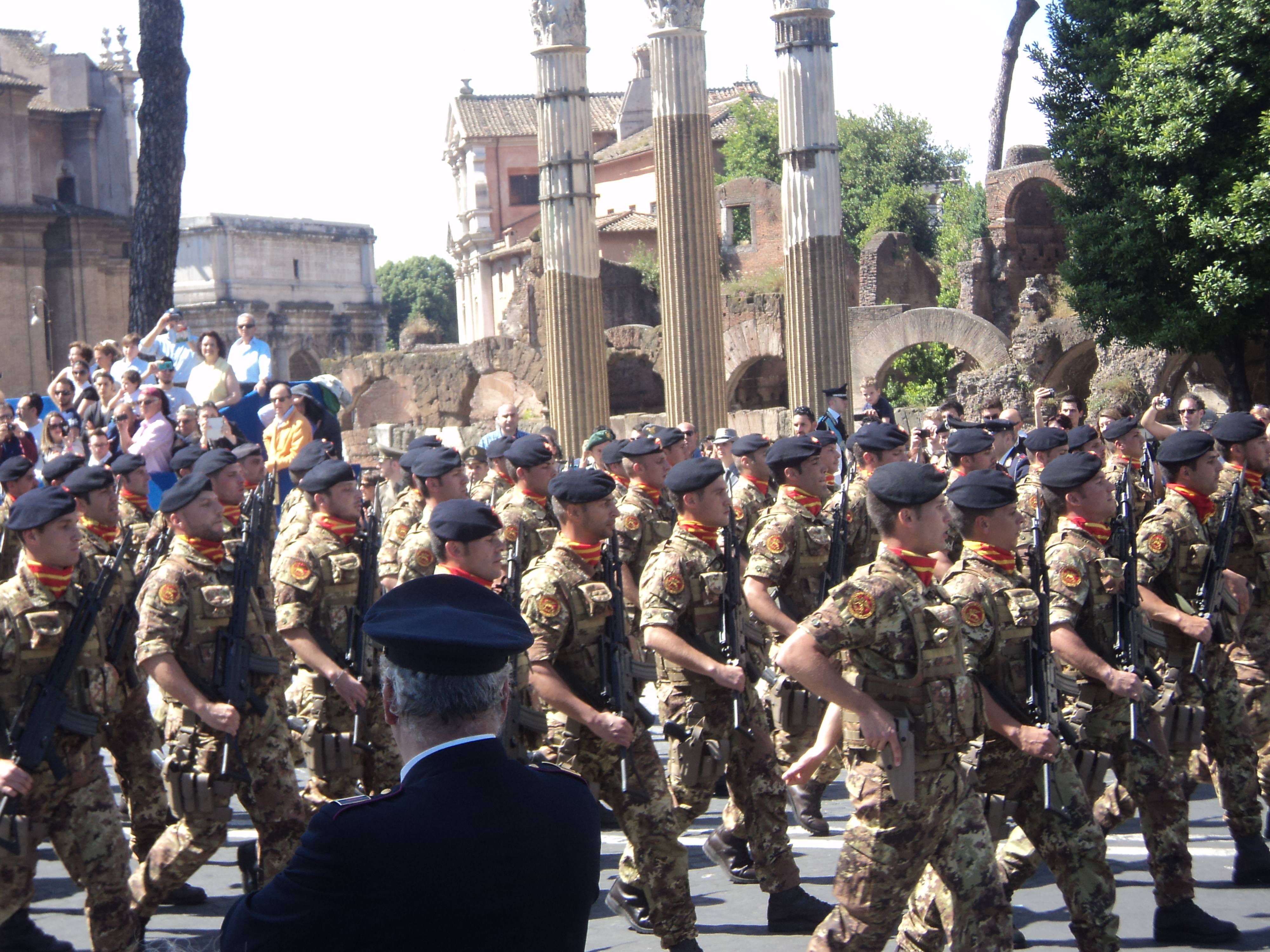 Celebration of the Italian Republic